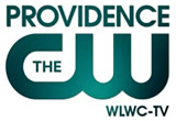 This is a former logo of WLWC-TV, used from May 5th, 2017 until October 2nd, 2017. As of October 2017, The CW Providence has been moved to WNAC-DT2 from its former WLWC-TV channel location.